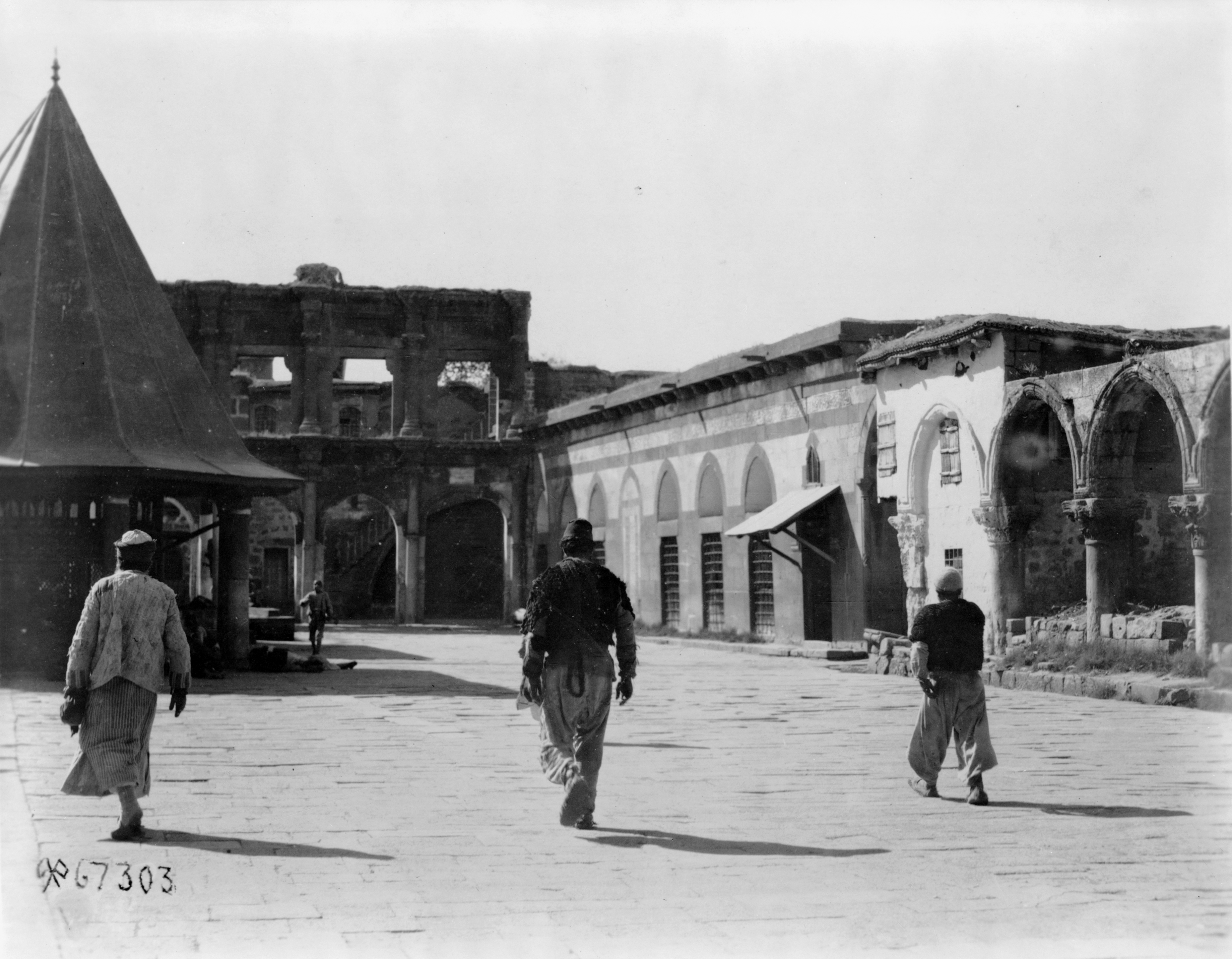 Interior of courtyard of the Ulu Cami (Great Mosque) in Diyarbakır, Turkey